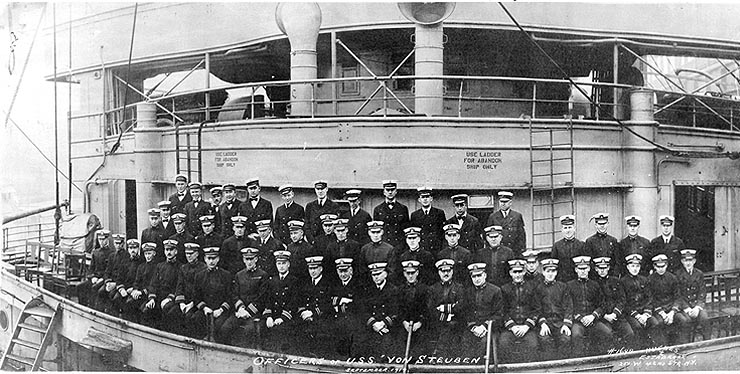 USS Von Steuben (ID # 3017) Ship's officers pose on her forward superstructure, September 1919. The Commanding Officer, Commander Frederick J. Horne, is seated in the front row, 8th from the left. Photographed by Hughes and Estabrook, New York City. Courtesy of the Naval Historical Foundation, 1967. Collection of Admiral Frederick J. Horne. U.S. Naval Historical Center photograph # NH 42255, downloaded from